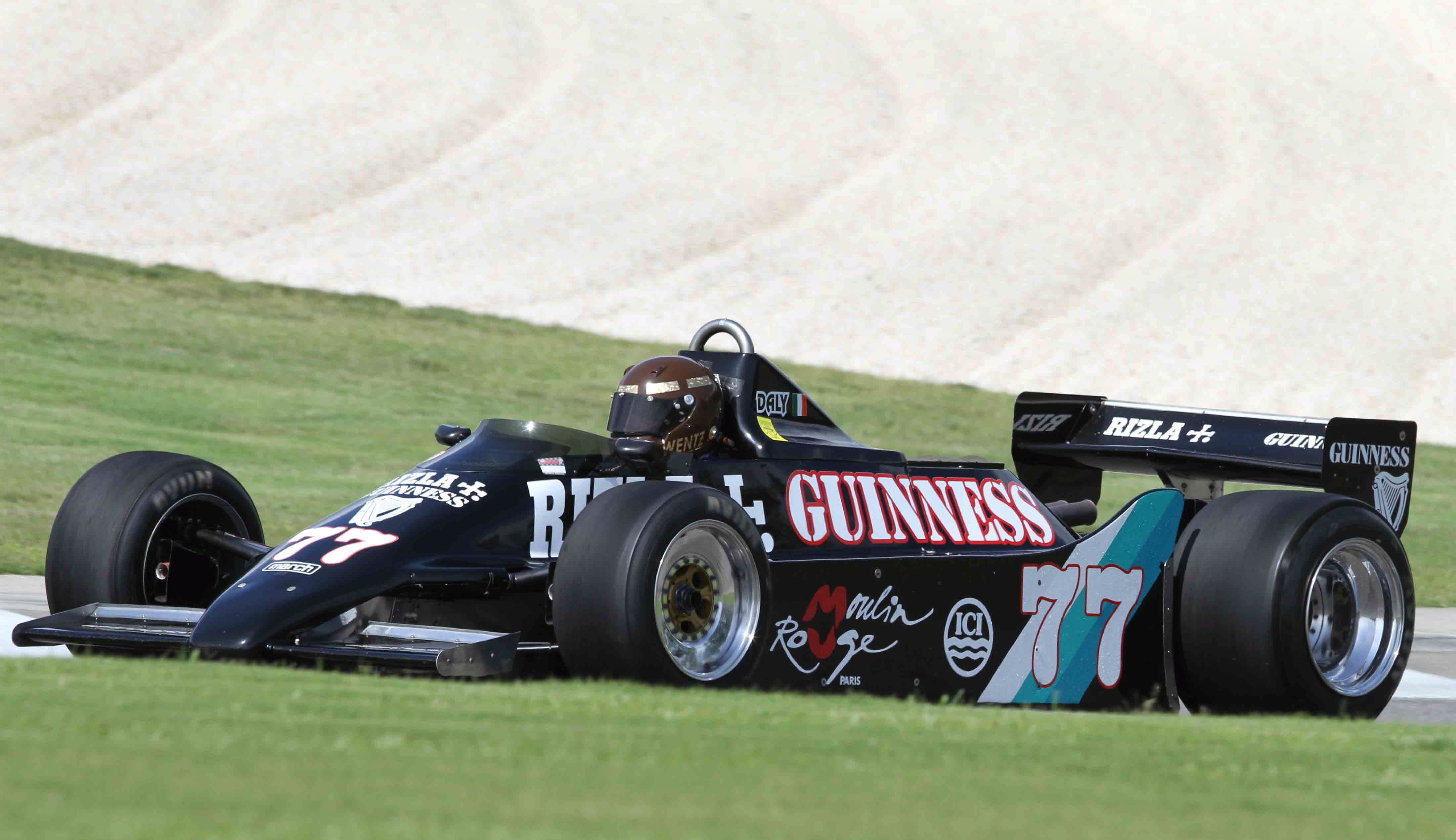 March 811 (ex-Derek Daly) at Barber Motorsports Park, 2010